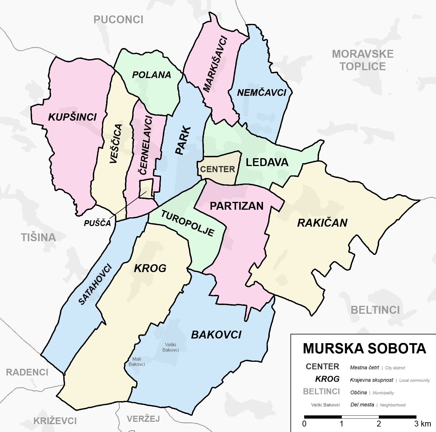 City districts and Local communities of Murska Sobota